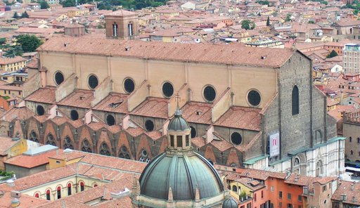 The Duomo Basilica of San Petronio in Bologna seen from a distance. (It is NOT a the Duomo which is San Pietro) Rome forced the construction to a halt when they discovered that the new church would become larger than St Peter's in the Vatican. Photo by Bob Tubbs